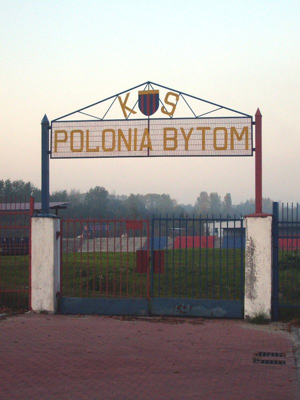 Polonia Bytom stadium in Bytom.